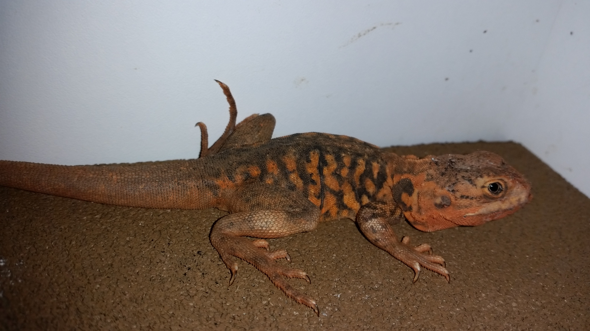 peninsula dragon in captivity